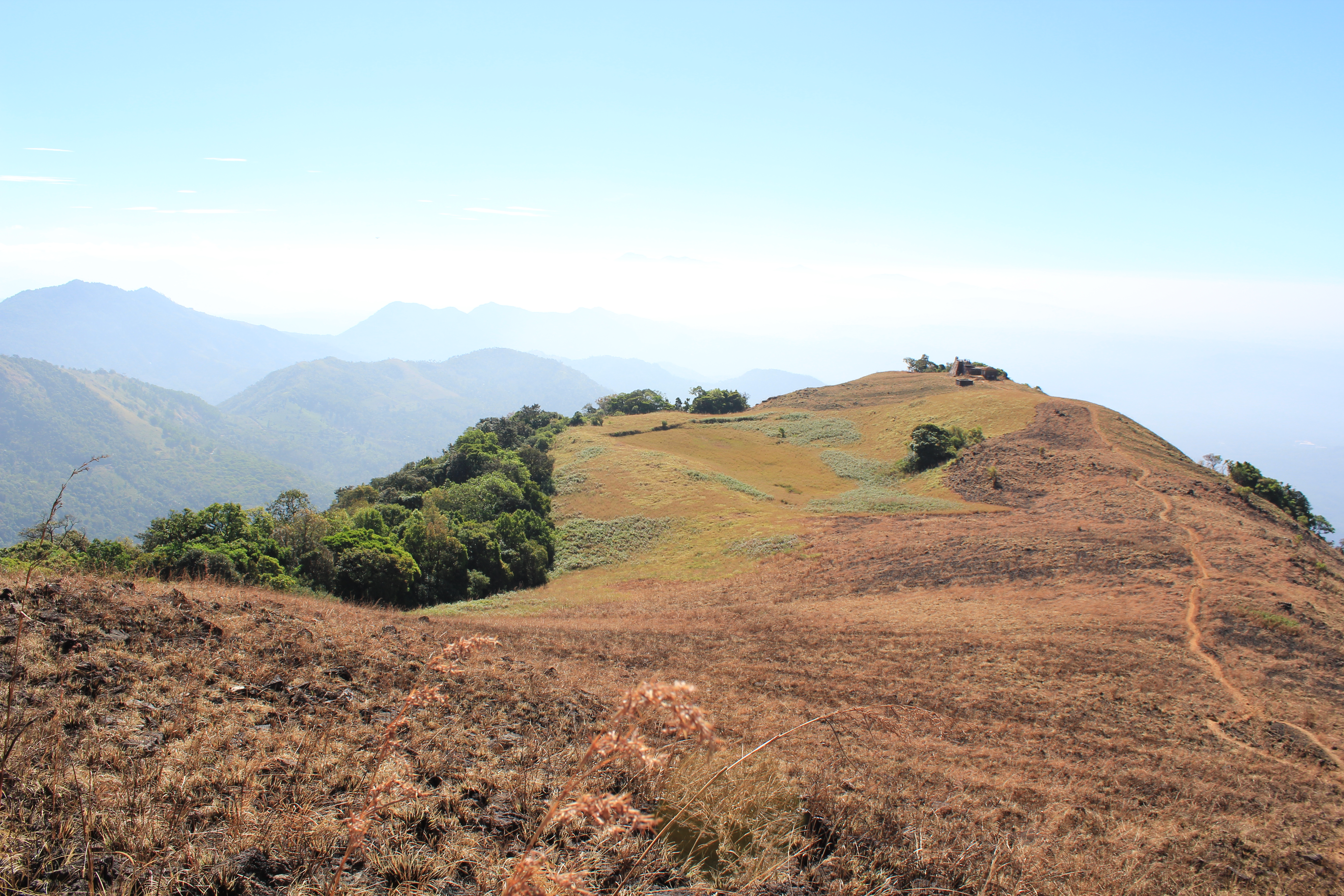 paithalmala